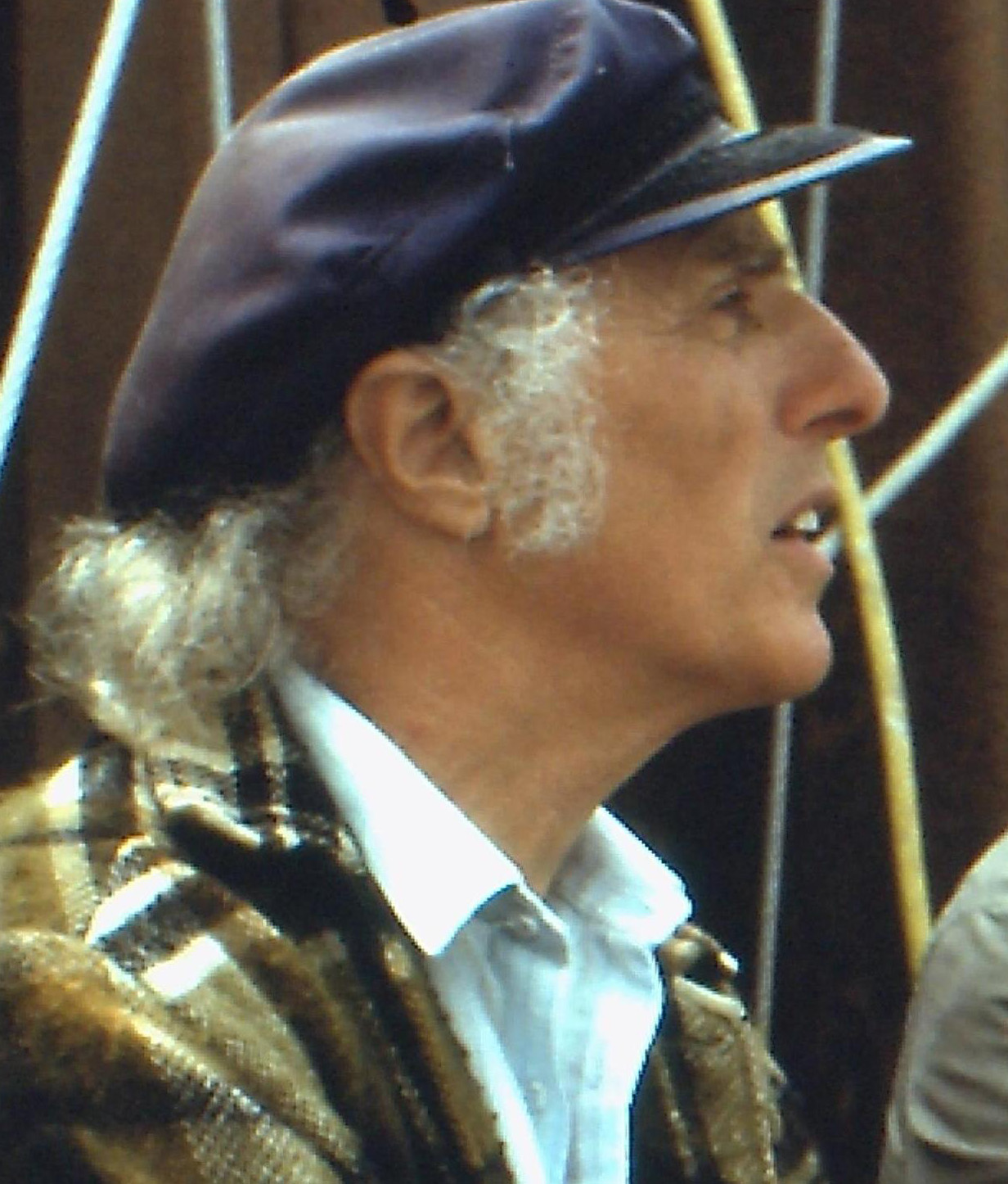 Gilles Vigneault at Natashquan (Lower North Shore of Quebec), on board of "Chantauvent", sailing ship of Pierre-Olivier Combelles during his trip in Audubon's wake (1989). Detail of the original photo.